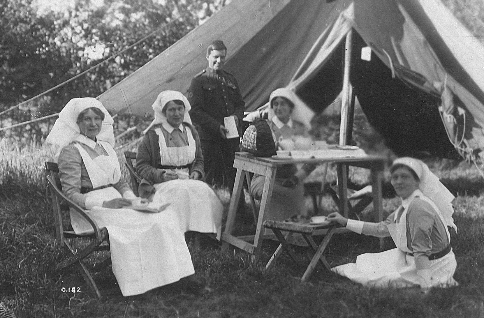 A group of Canadian nurses enjoying tea at a field hospital near the front lines. Identified by the National Film Board as No. 3 Casualty Clearing Station, July 1916. [No 3 Casualty Clearing Station (CCS) of the Royal Army Medical Corps (RAMC) was located at Puchevillers from May 1916 - Mar 1917.[1 This is a single image from a bound selection of the Canadian Government's official photographic series from World War I. The collection of 1772 images, representing around a third of all the official photographs known to exist in the series, was deposited at the British Museum in 1919/20 as part of the official copyright deposit collection. Individual photographs are not labelled, and no index has survived, but in many cases a number of the form "O.123" can be seen in the corner. This appears to represent an official numbering sequence. Some prints have been cropped and so the number is no longer visible; however, they appear to be bound in sequence. The volumes are numbered 1-4, and each page is recorded as "f001r", "f002r", etc.